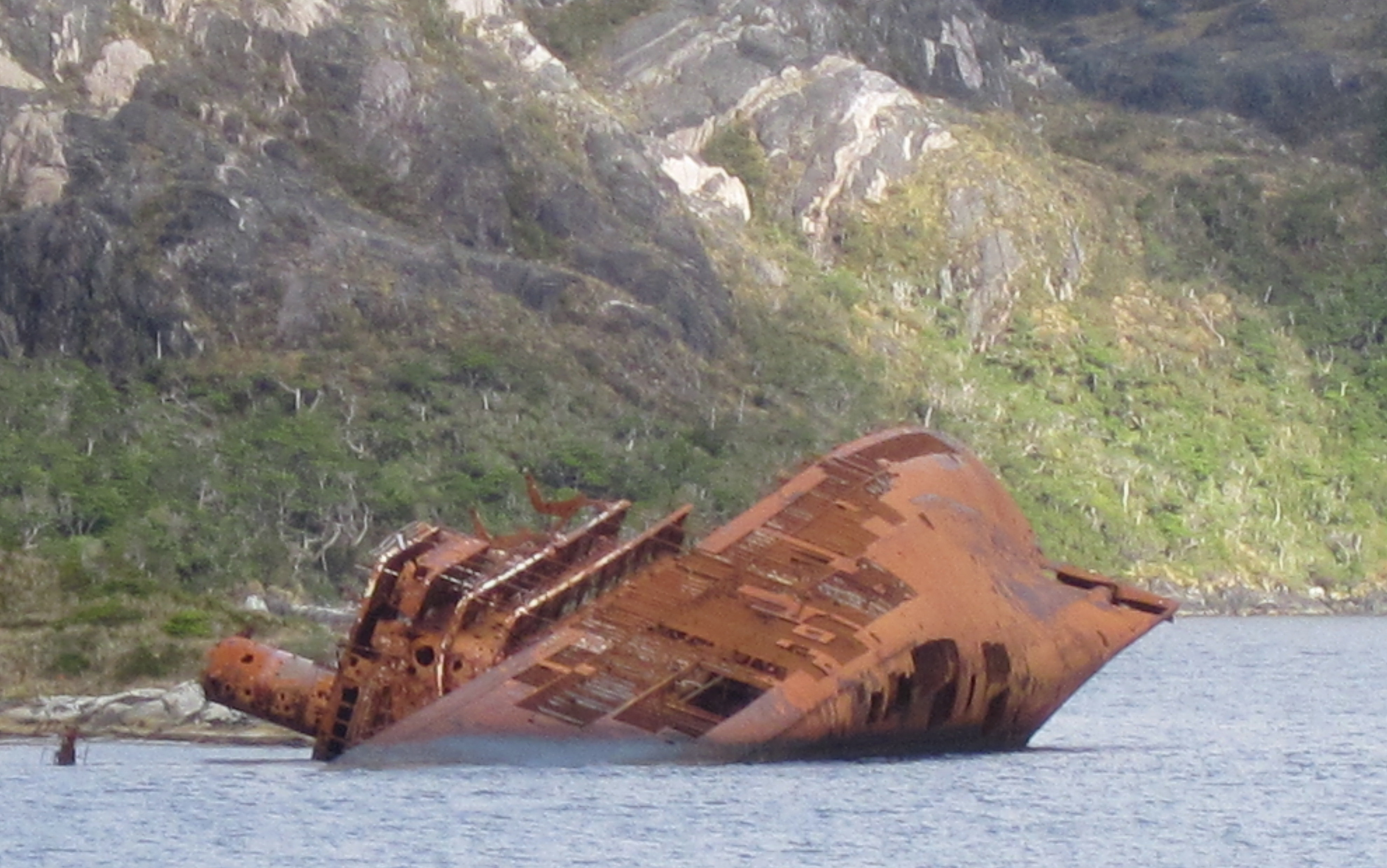 Santa Leonor shipwreck rusting away since 1969 in Canal Smyth, Chile